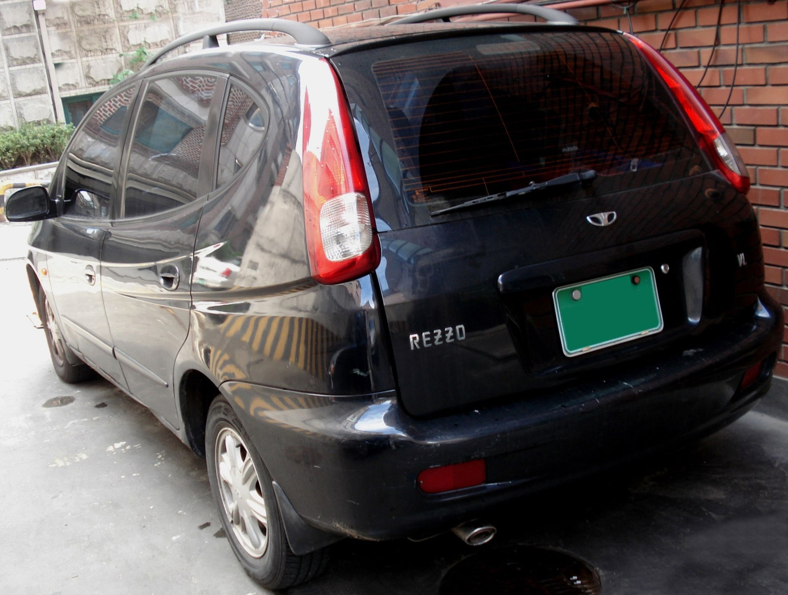 Daewoo Rezzo